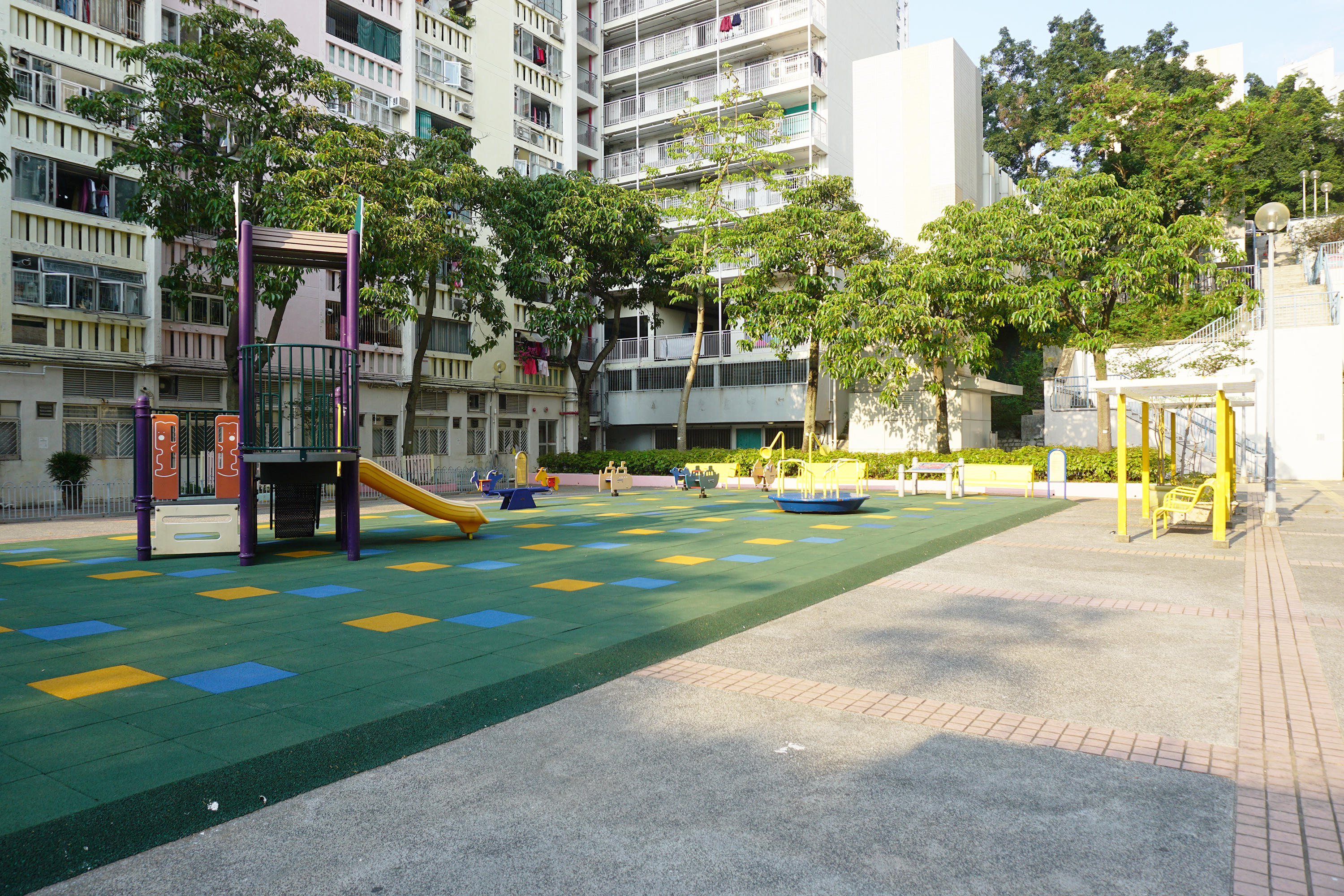 Wah Fu (I) Estate in Pok Fu Lam, Hong Kong.